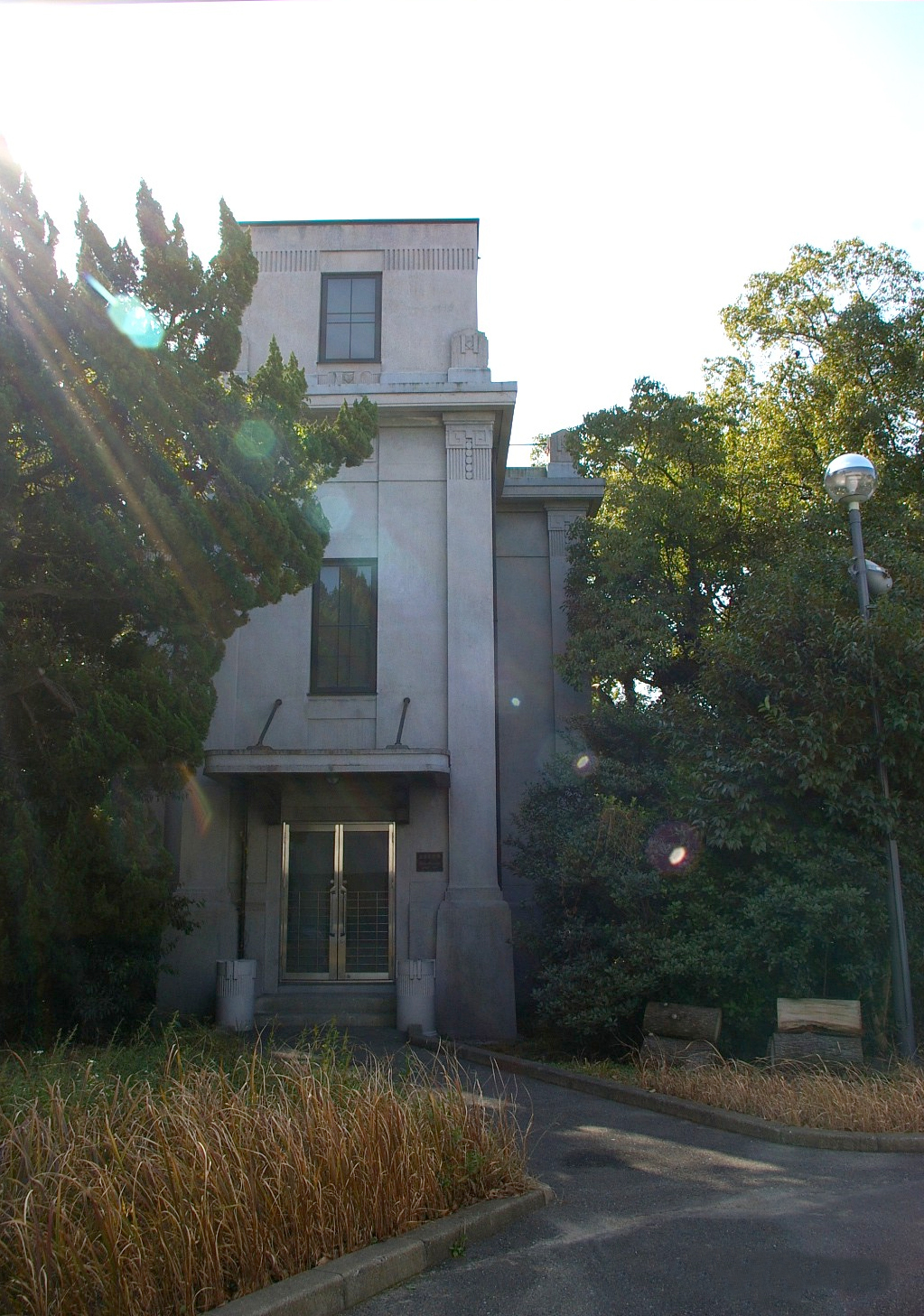 Kubo-Museum (Medical Faculty, Kyushu University, Fukuoka-City, Japan), built in 1927 in commemoration of the 20th anniversary of the Department of Otorhinolaryngology, founded by Kubo Inokichi. This is the oldest museum for medical history in Japan.